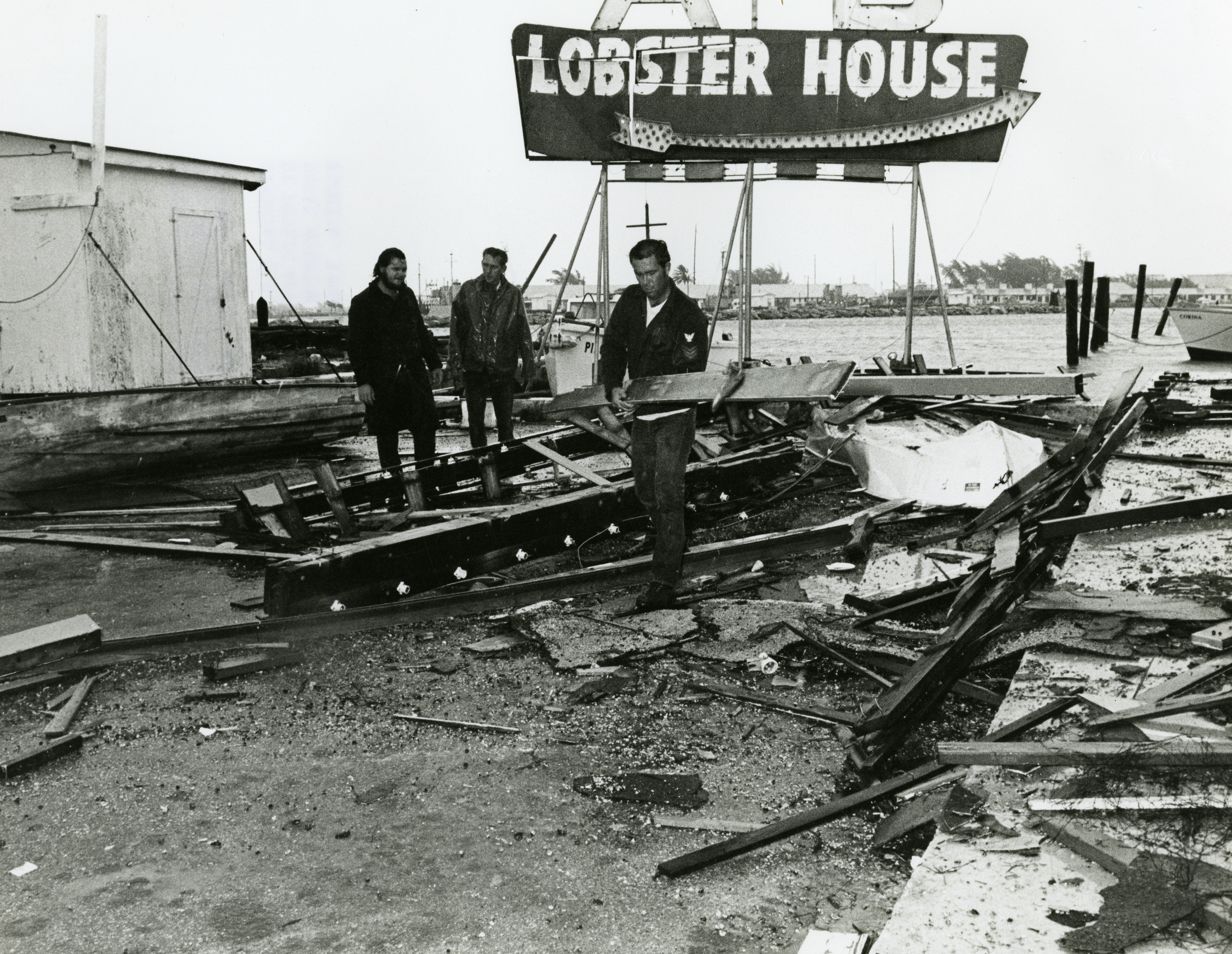 Damage at the end of Front Street from a Tornado from Hurricane Agnes on June 18, 1972. Ida Woodward Barron Collection. Effects of Hurricane Agnes in Key West, Florida, June 1972.